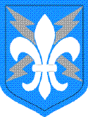 205th Military Intelligence Brigade SSI from [1]